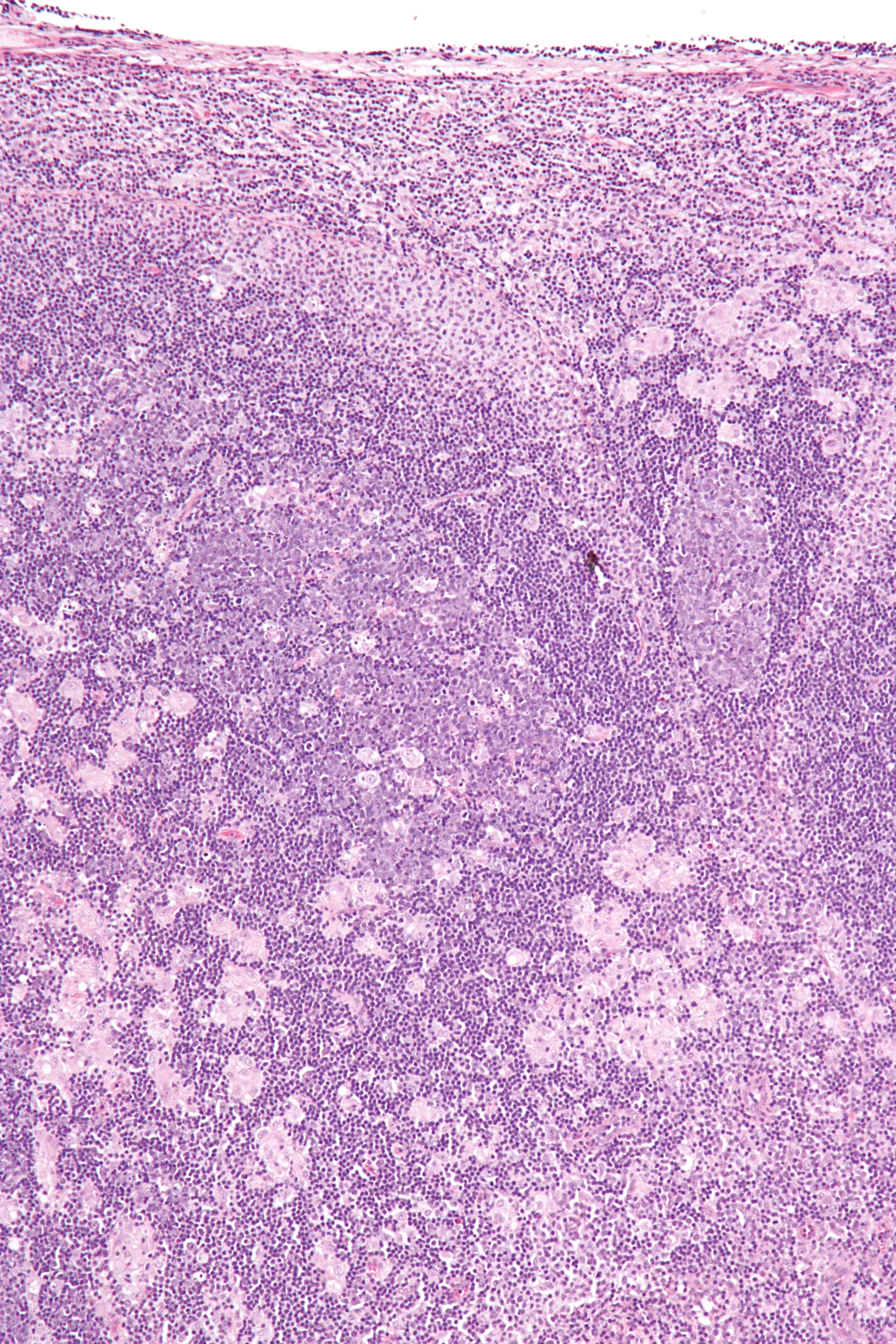 Intermediate magnification micrograph showing toxoplasma in a lymph node, also known as toxoplasmosis lymphadenopathy. H&E stain. Features: Reactive germinal centers - poorly demarcated (due to loose epithelioid cell clusters at germinal center edge). Epitheliod cells - loose aggregates of histiocytes (do not form round granulomas). Monocytoid cells - B cells (that look like monocytes) in tight cell clusters of cells often with interspersed neutrophils. Related images Very low mag. Low mag. High mag. Very high mag. High mag. Very high mag.